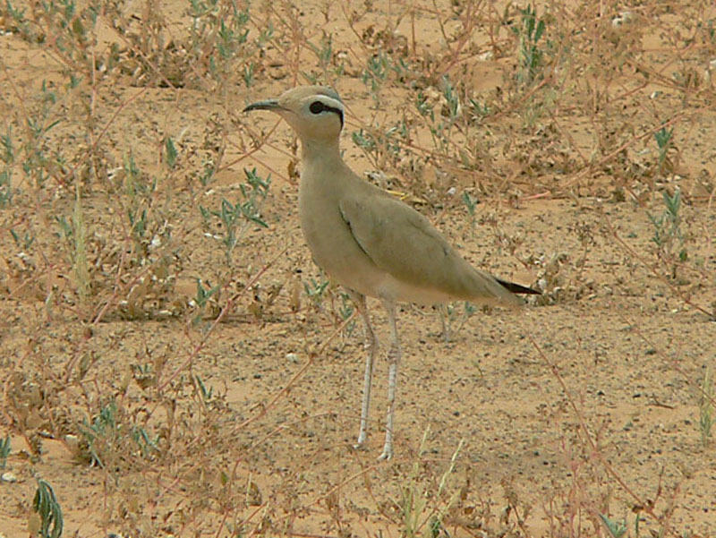 Cream-coloured courser Cursorius cursor photographed near Benishab, Mauritania.